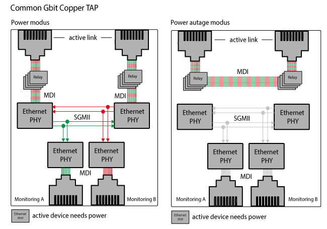 Schematic function of a Gbit Copper TAP